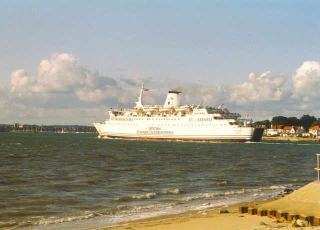 British Channel Island Ferry entering Poole Harbour